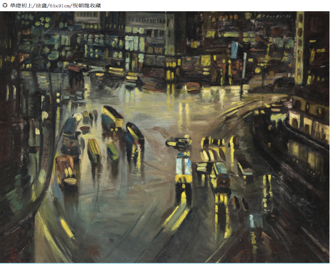 華燈初上（油畫）